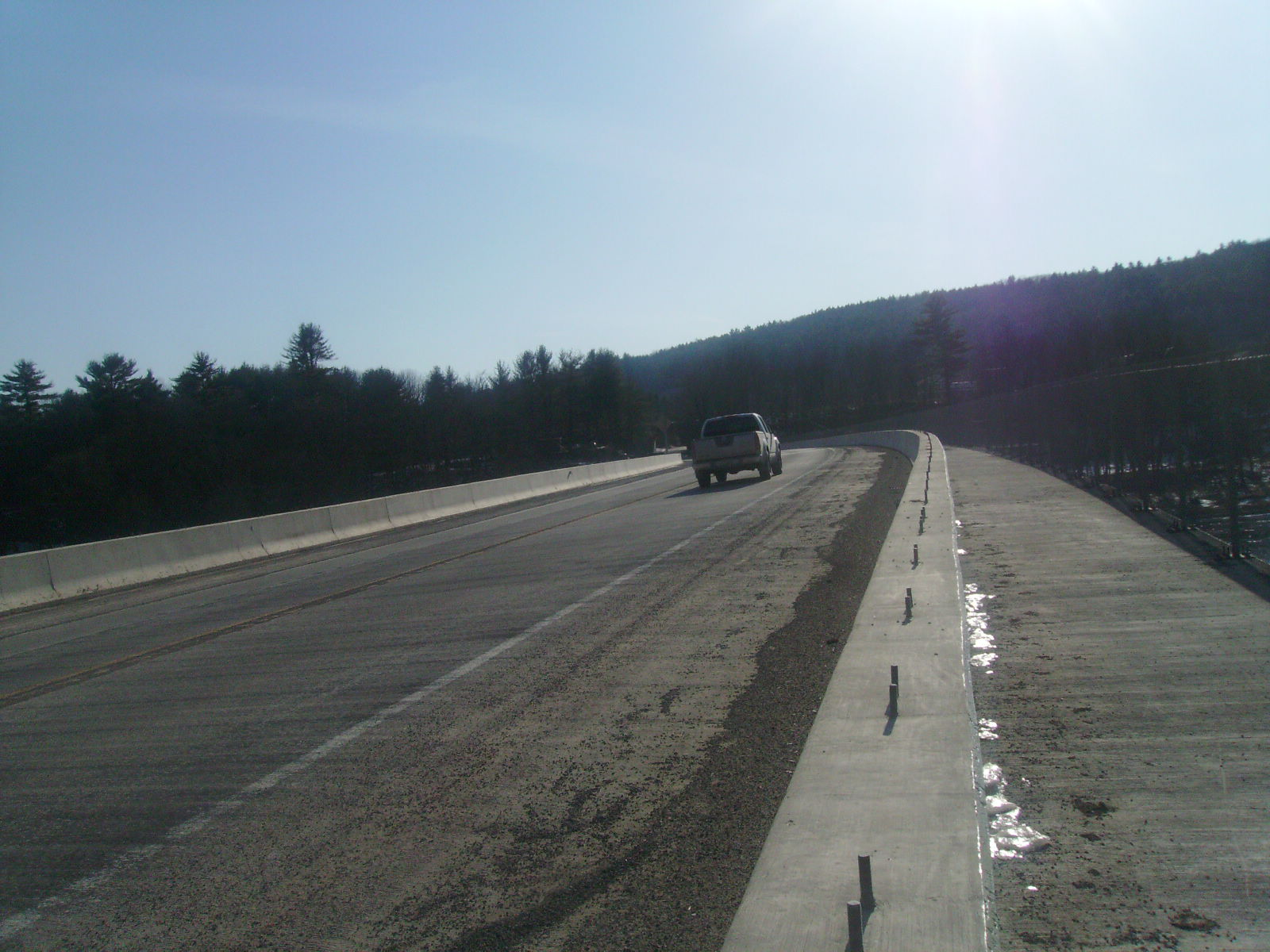 The fifth span of the Shohola–Barryville Bridge in Barryville, New York looking towards Pennsylvania.